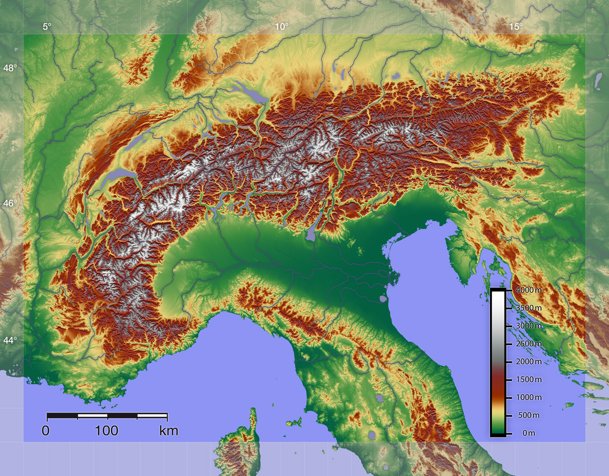 Digital relief of the Alps; France, Italy, Switzerland, Germany, Liechtenstein, Austria and Slovenia. Based on SRTM-Data.